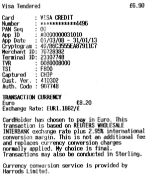 Credit card slip with DCC info